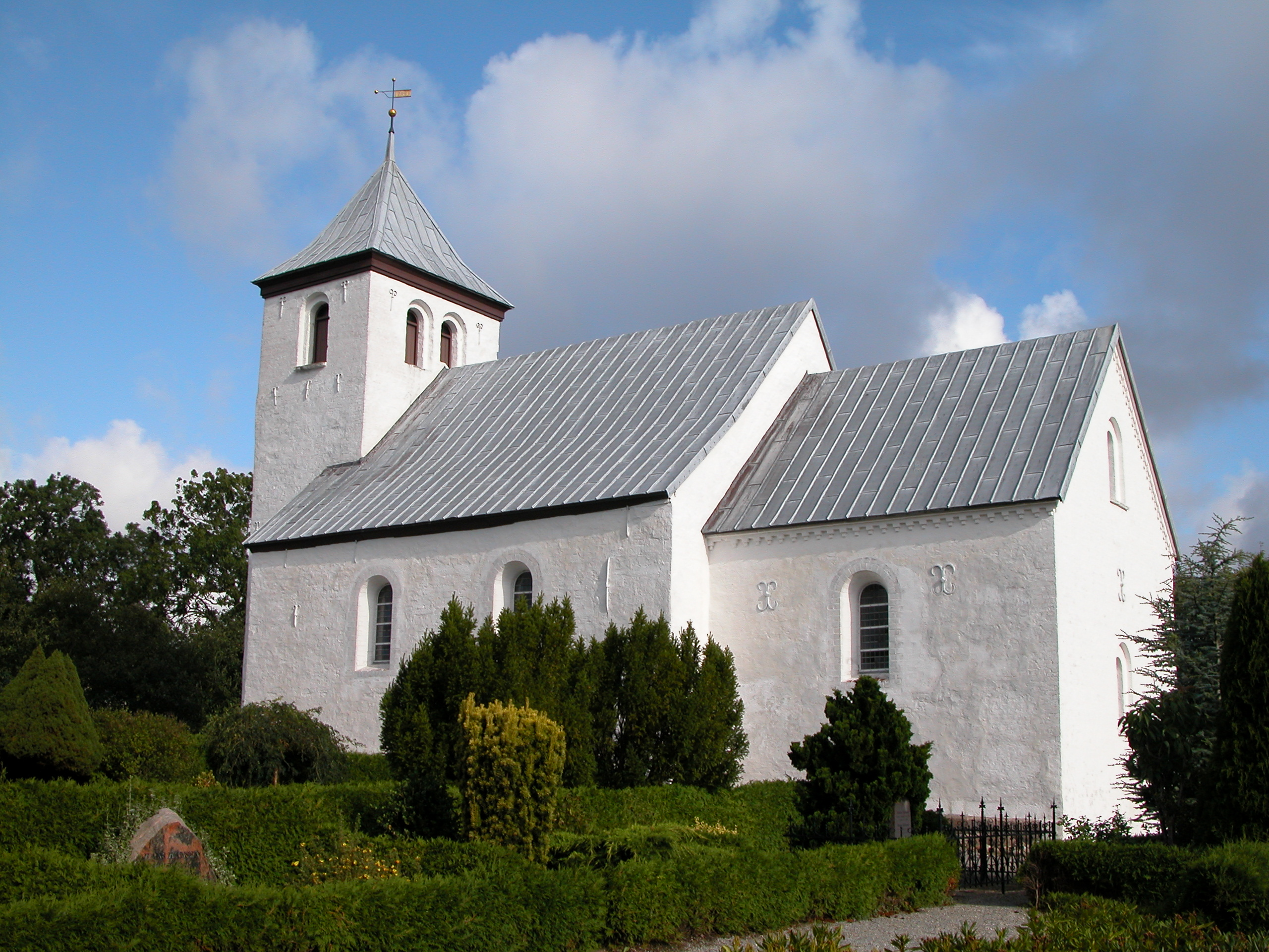 Sabroe Kirke, Aarhus, Jylland, Denmark